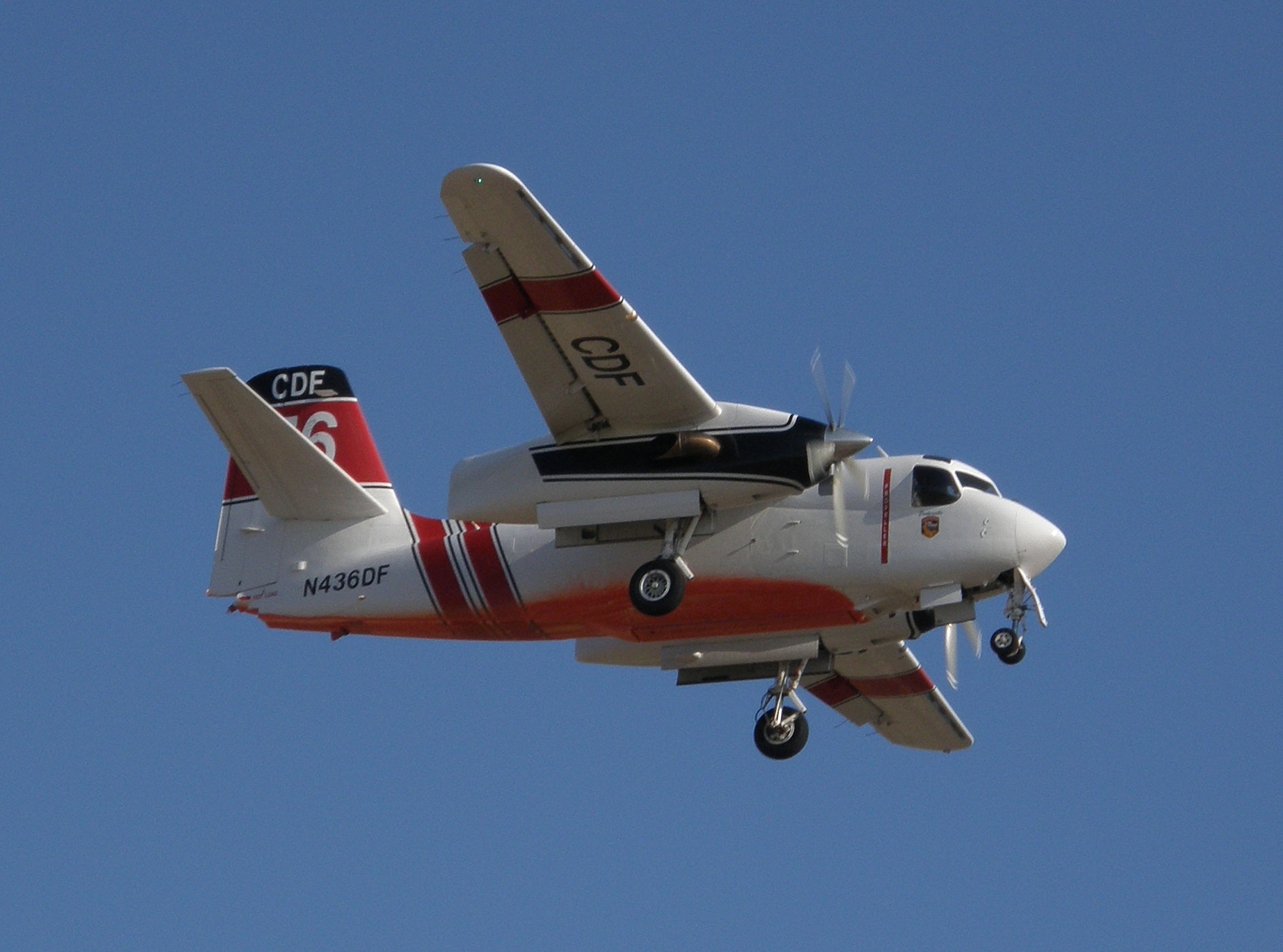 CDF S-2F3AT Turbine Tracker landing at Fox Field, Lancaster, California, while fighting the North Fire in 2007. Originally built by Grumman, converted to a turboprop air tanker for fighting wildfires by Marsh Aviation.